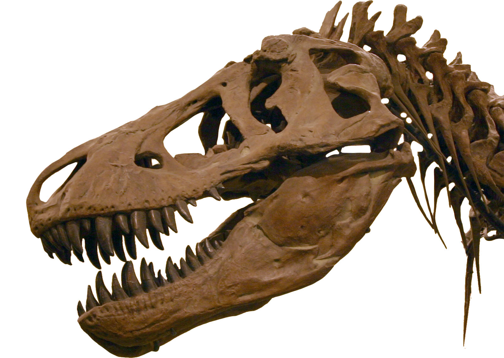 T-Rex (the specimen AMNH 5027) at American Museum of Natural History